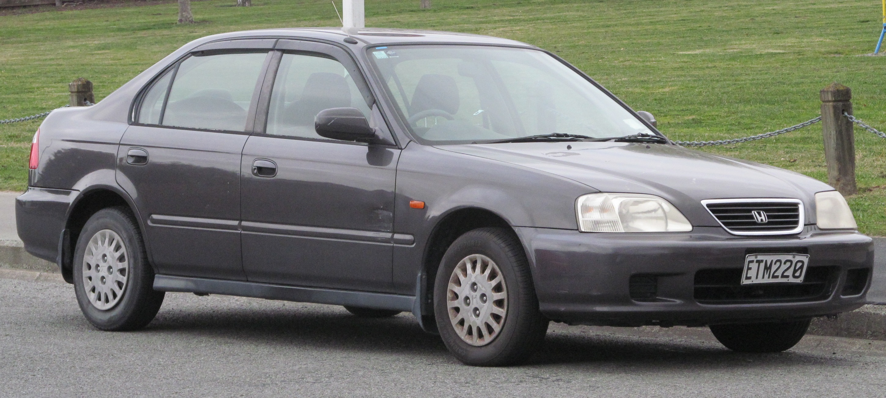 1999 Honda Integra SJ (JDM import) in Christchurch, New Zealand. Vehicle registration enquiry resultsJurisdictionNew ZealandRegistrationETM220Chassis code7A88G0R0708400165 (EK3-5400165)Engine codeD15B-5000198Year of manufacture1999